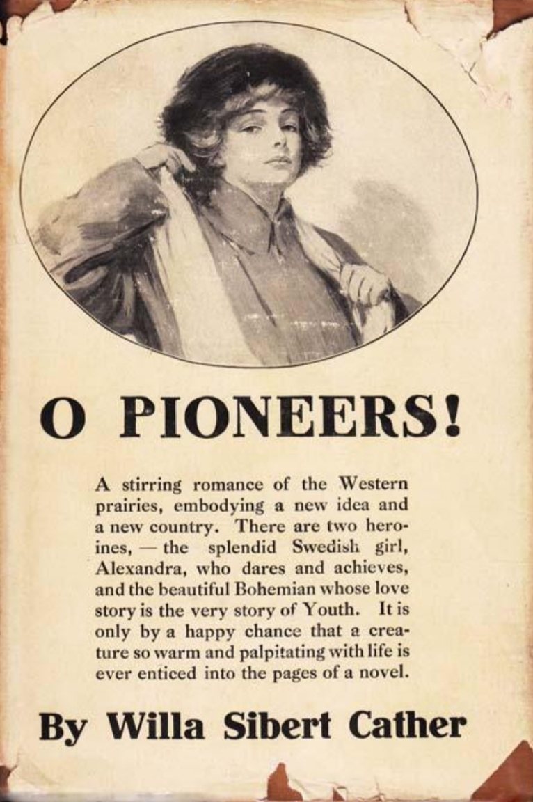 First edition cover of O Pioneers!